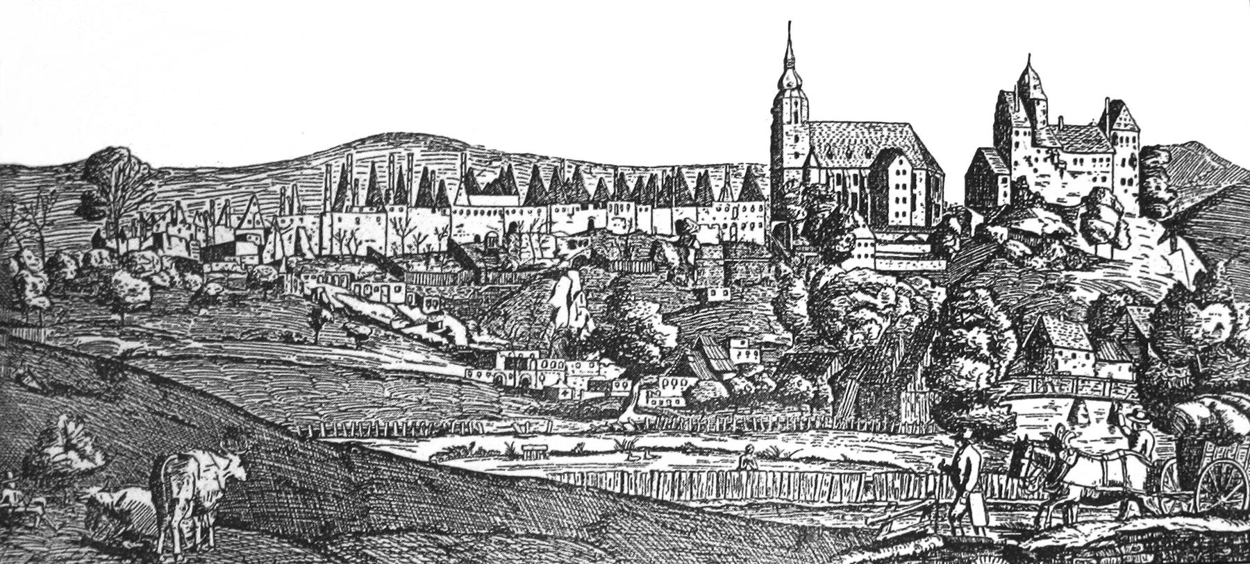 City of Schwarzenberg after fire of 1824